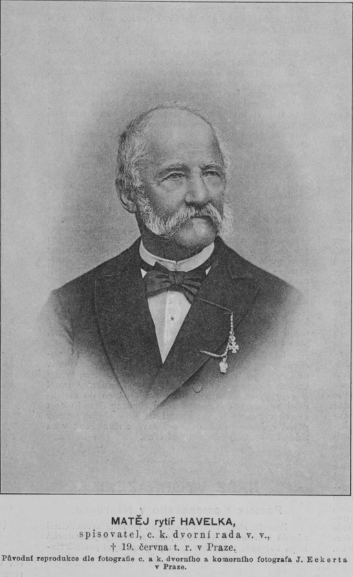 Photograph of Matěj Havelka (1809 - 1892), Czech lawyer and poet.